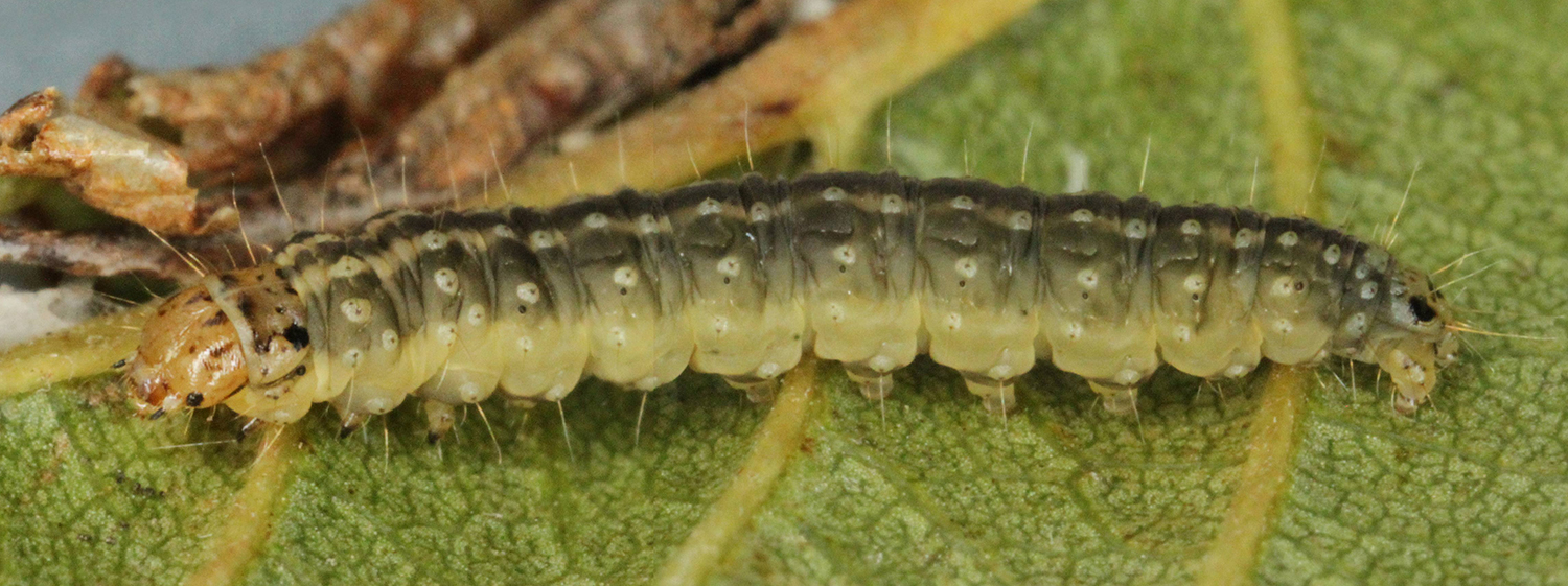 Ancylis apicella, Fenn's Moss, North Wales, Sept 2010 2